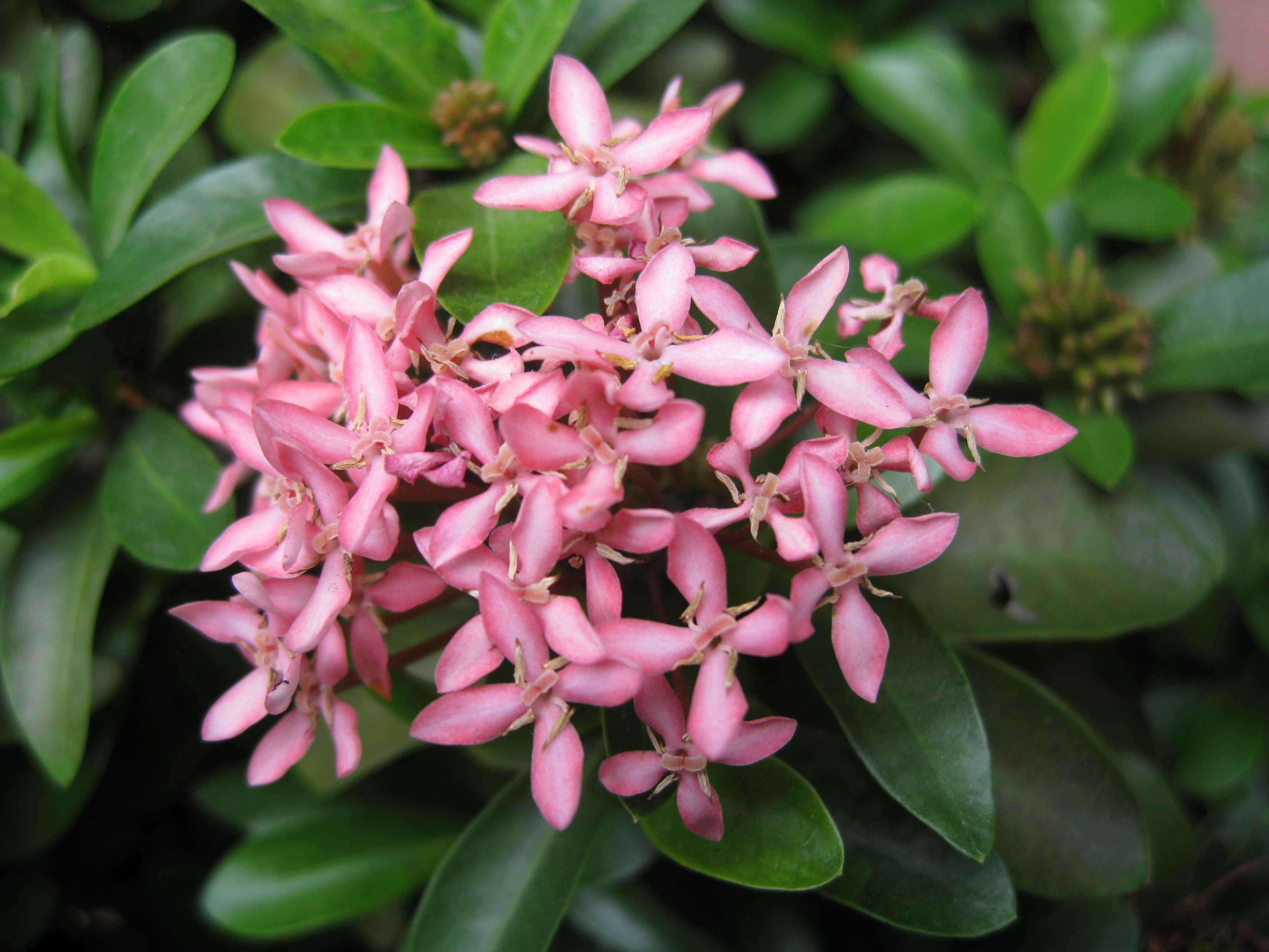 Ixora rosae.